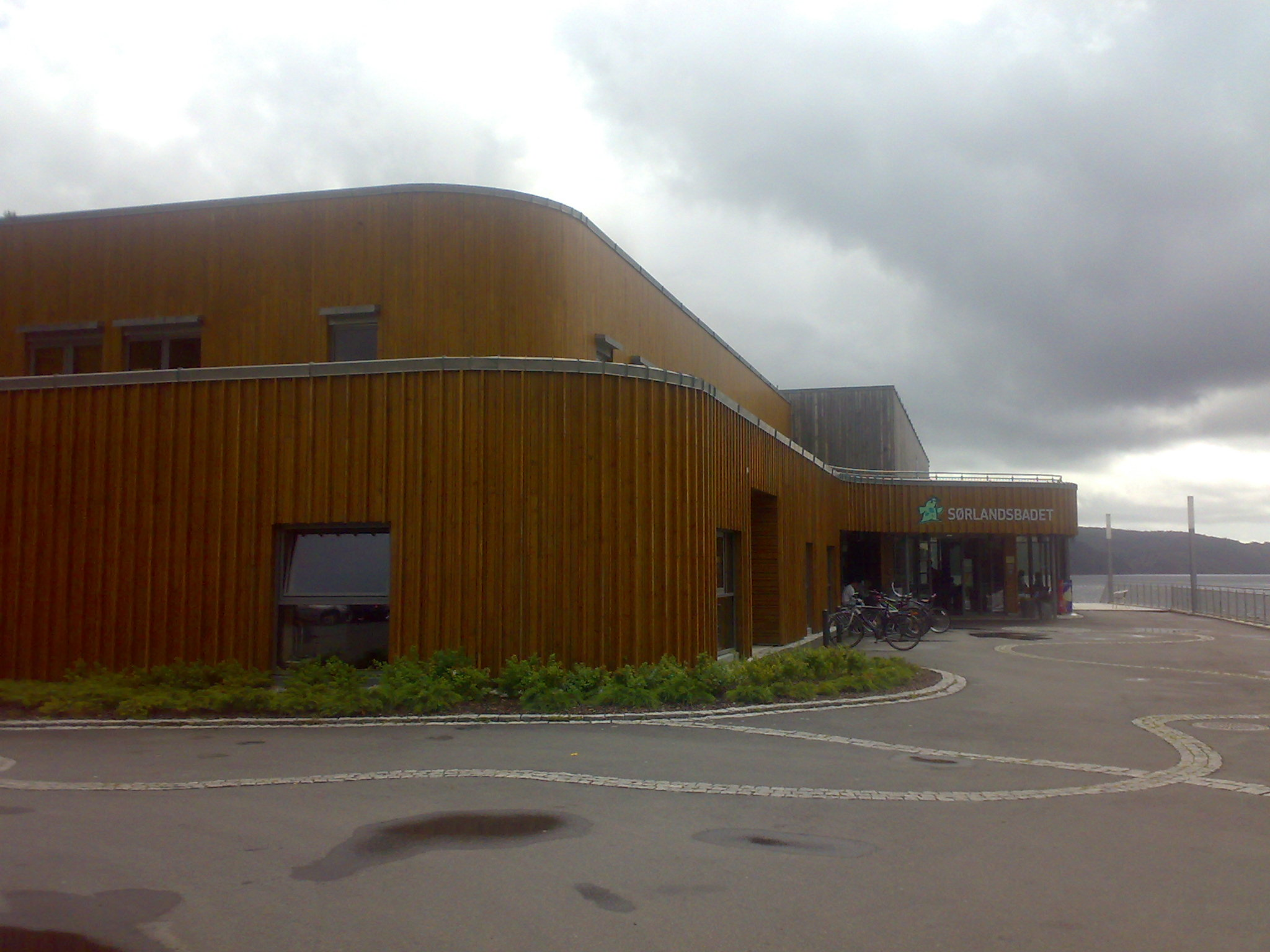 Sørlandsbadet (indoor swimming facility), Lyngdal, Norway